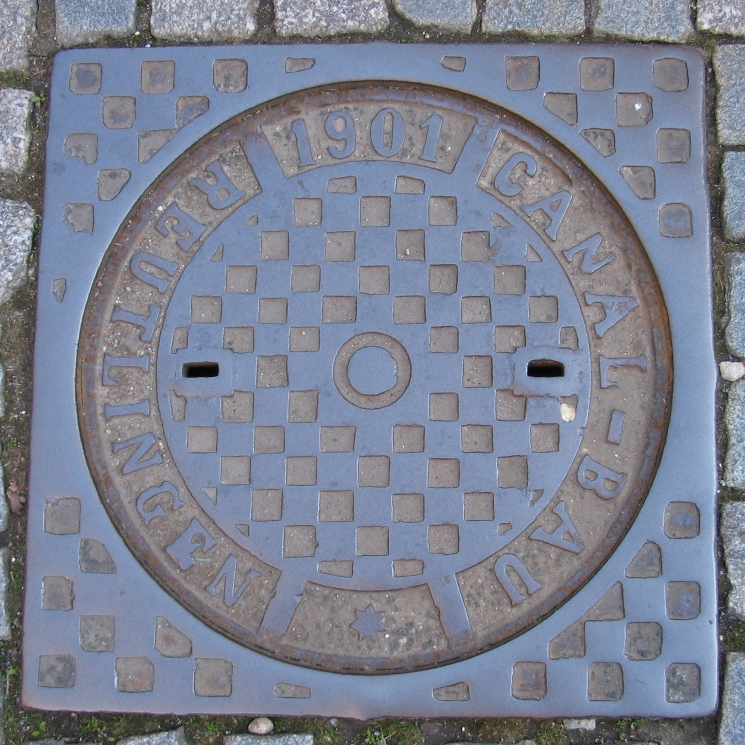 Manhole-cover in Reutlingen